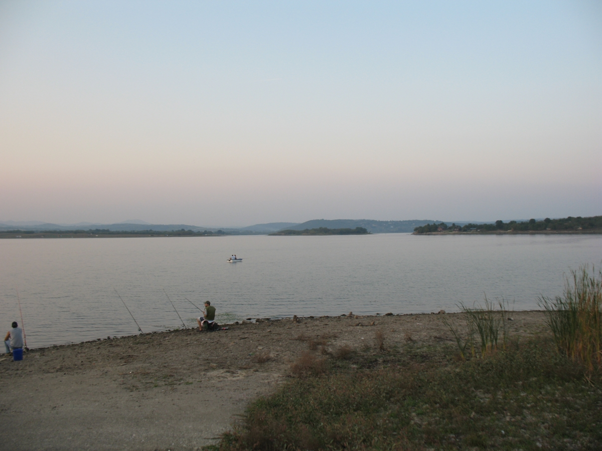 View on Gruža Lake in dusk,Knić municipality,Serbia